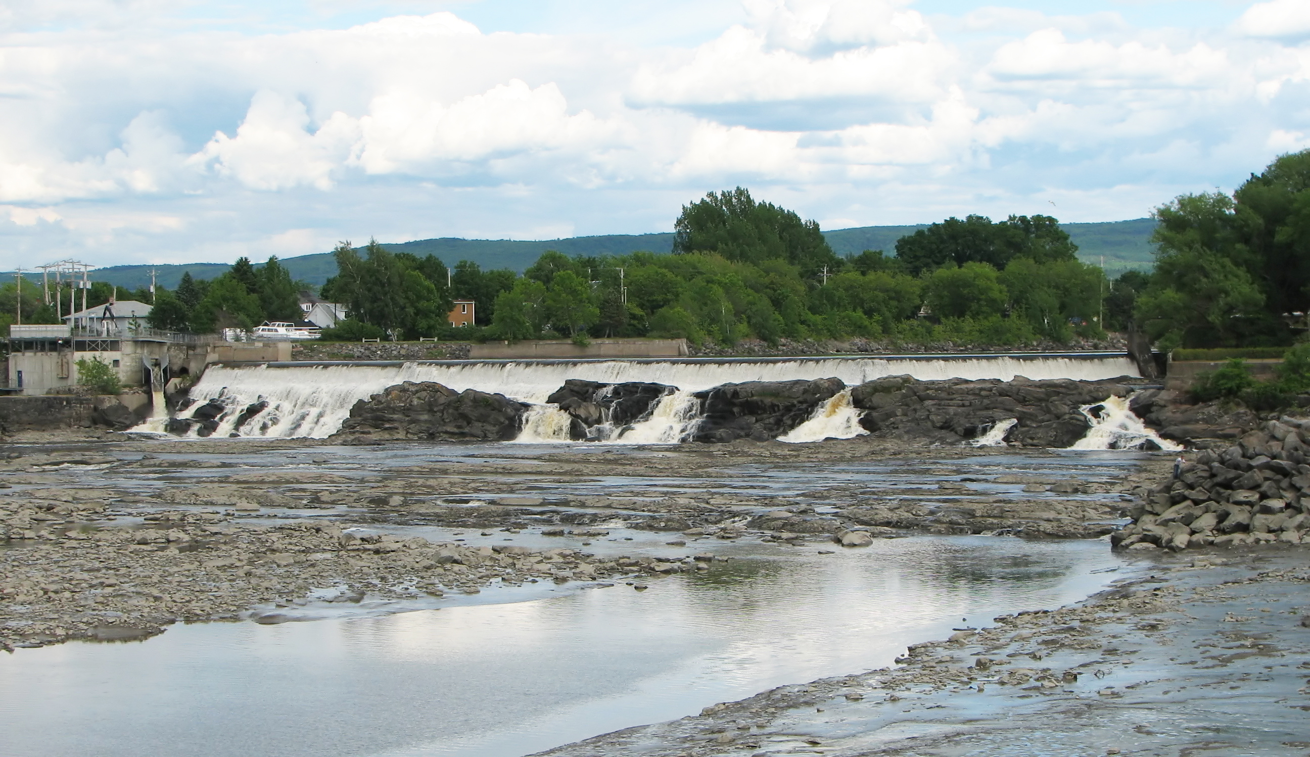 Waterfalls of Rivière du Sud, Montmagny, province of Quebec, Canada